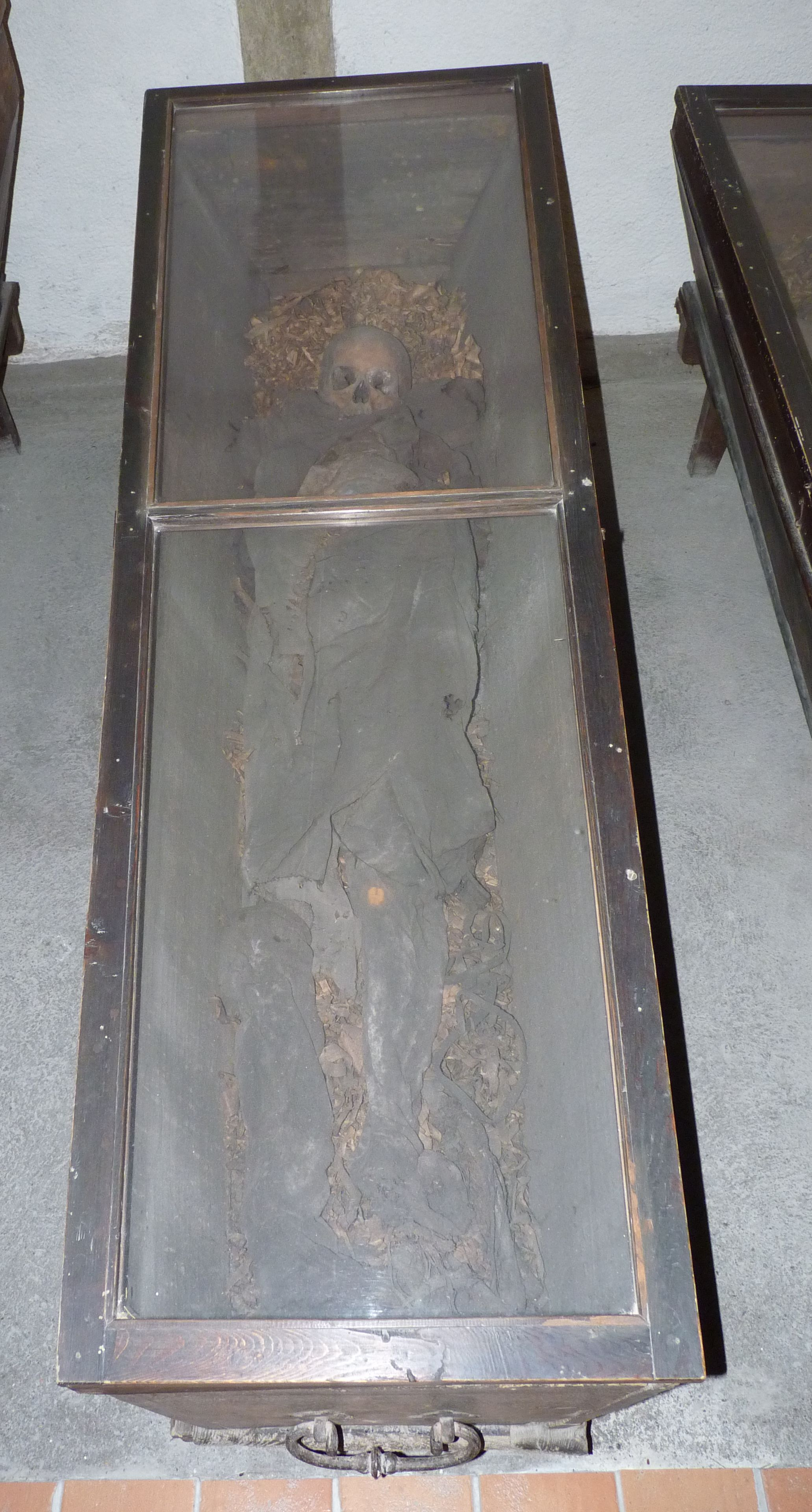 Mořic Grimm. Capuchin Crypt in Brno, South Moravian Region, Czech Republic